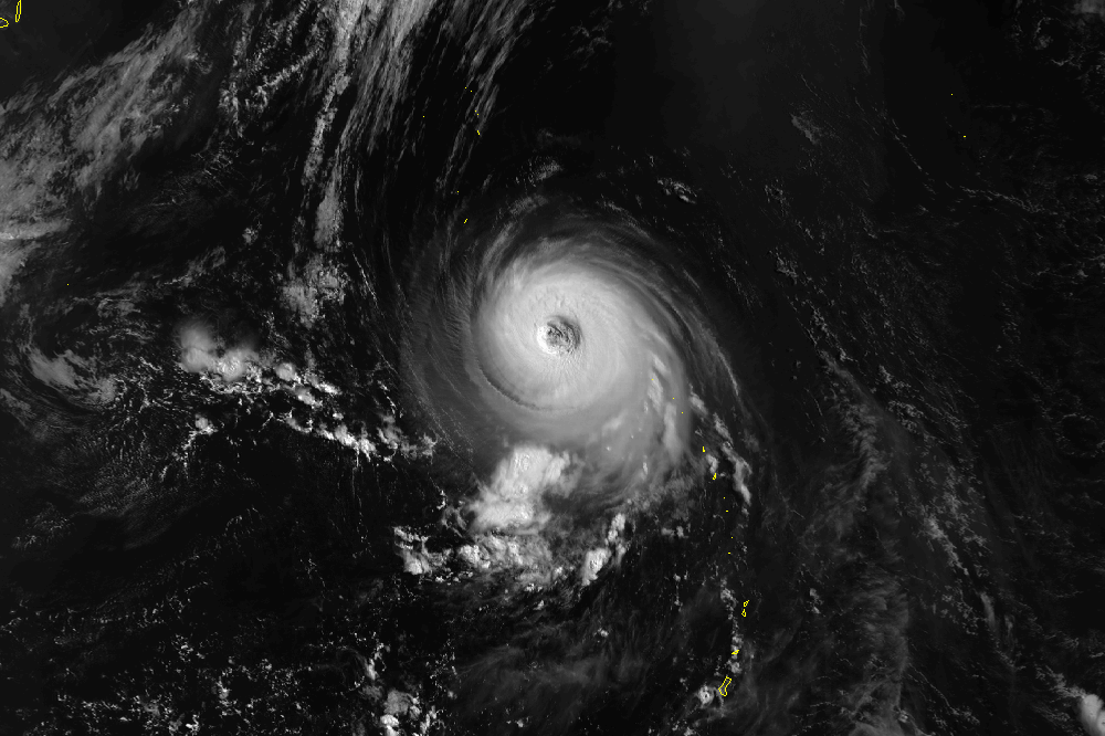 Super Typhoon Nestor